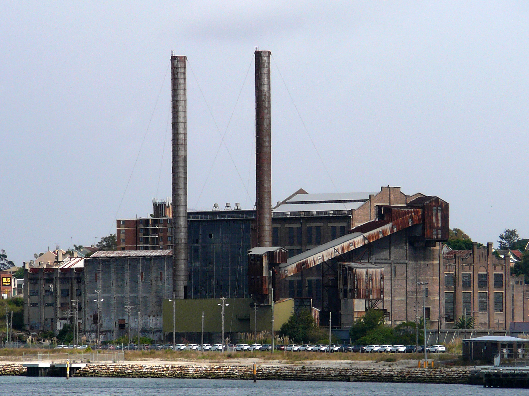 The now inactive, heritage-listed White Bay Power Station in the suburb of Rozelle, Sydney, New South Wales. The coal-fired plant was operational from 1917 until 1983 and was originally built by the Department of Railways to supply power for the tram network. In 2000, the site was purchased by the Sydney Harbour Foreshore Authority.